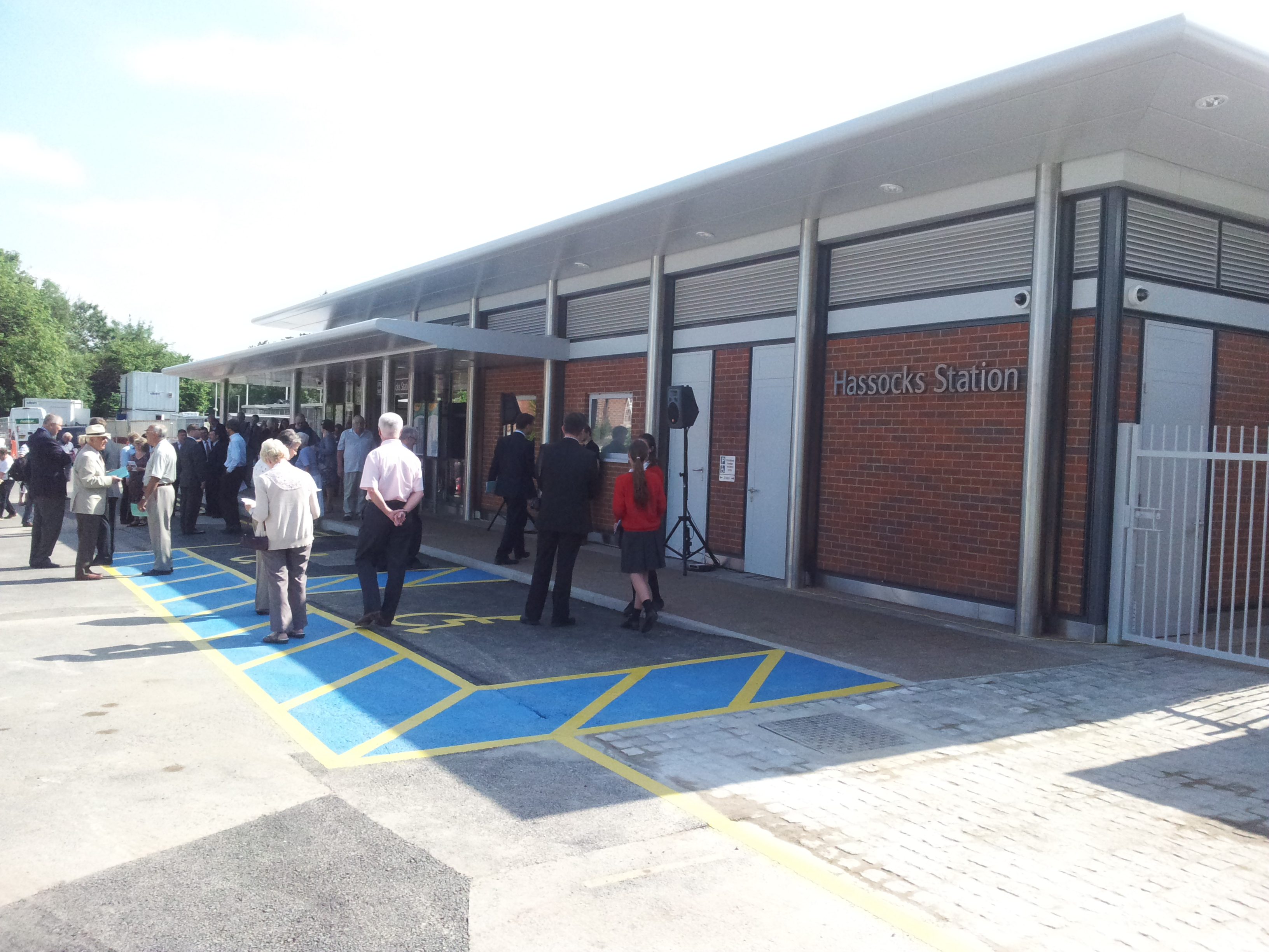 The opening of the new Hassocks Station on 5th July 2013.